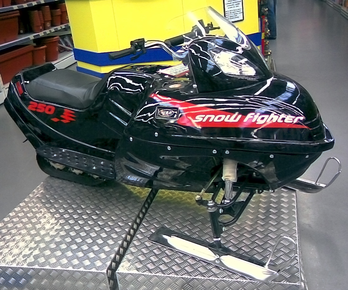 Snow fighter – chinese snowmobile in a hypermarket